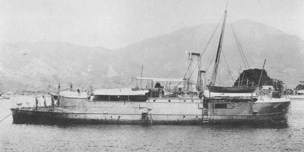 Chinpen, gunboat of the Imperial Japanese Navy, at Kure Naval Base.(ex-Chinese gunboat Chen-Pien)